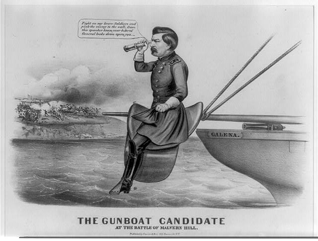 General George B. McClellan was criticized most harshly for his disposition at the Battle of Malvern Hill. McClellan boarded the USS Galena while his soldiers fought and left for Harrison's Landing in Virginia to inspect the place. (McClellan's Army of the Potomac was supposed to be stationed there in the future). The dialogue box reads: "Fight on my brave Soldiers and push the enemy to the wall, from this spanker boom your beloved General looks down upon you." This image is available from the United States Library of Congress's Prints and Photographs division under the digital ID cph.3b38362.This tag does not indicate the copyright status of the attached work. A normal copyright tag is still required. See Commons:Licensing for more information.